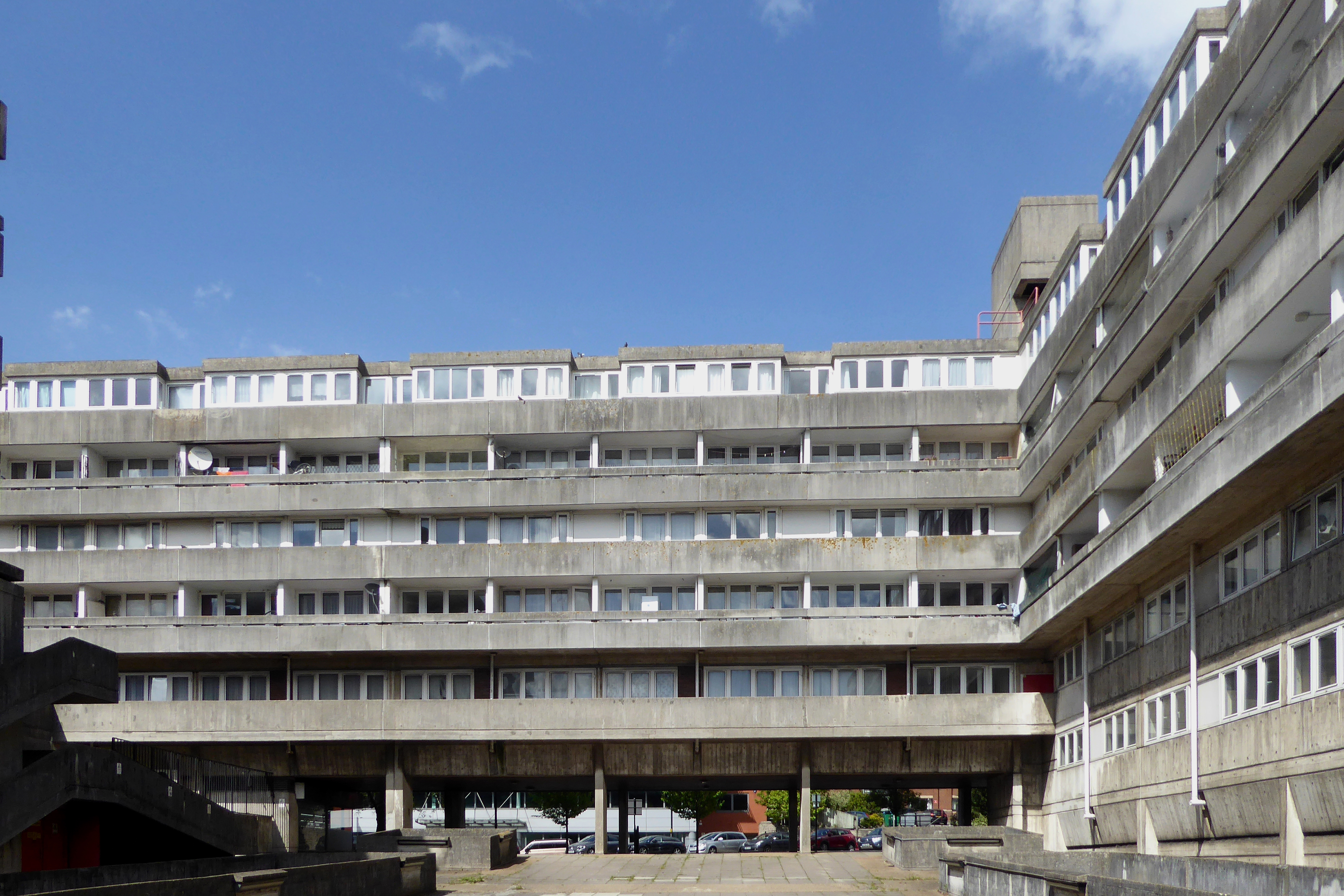 An internal north-facing view inside the courtyard of Wyndham Court in Southampton.